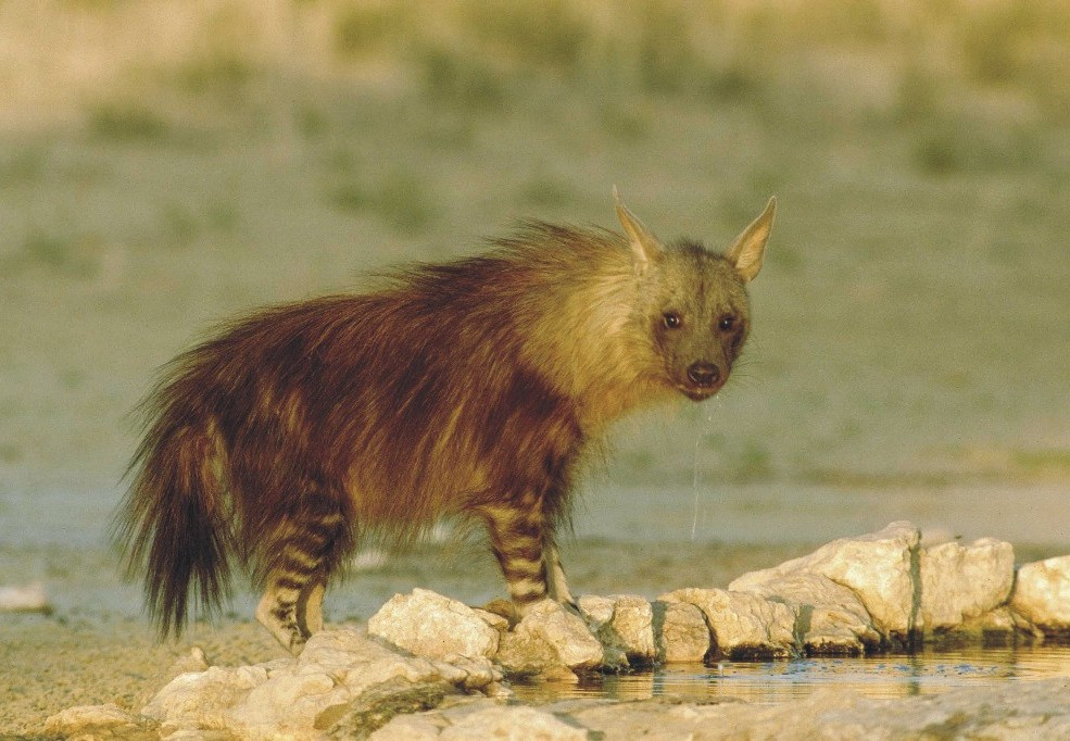 A Brown Hyena (Hyaena brunnea Syn. Parahyaena brunnea), courtesy of South African Tourism - . This image must always be credited as "South African Tourism" in some form or fashion.